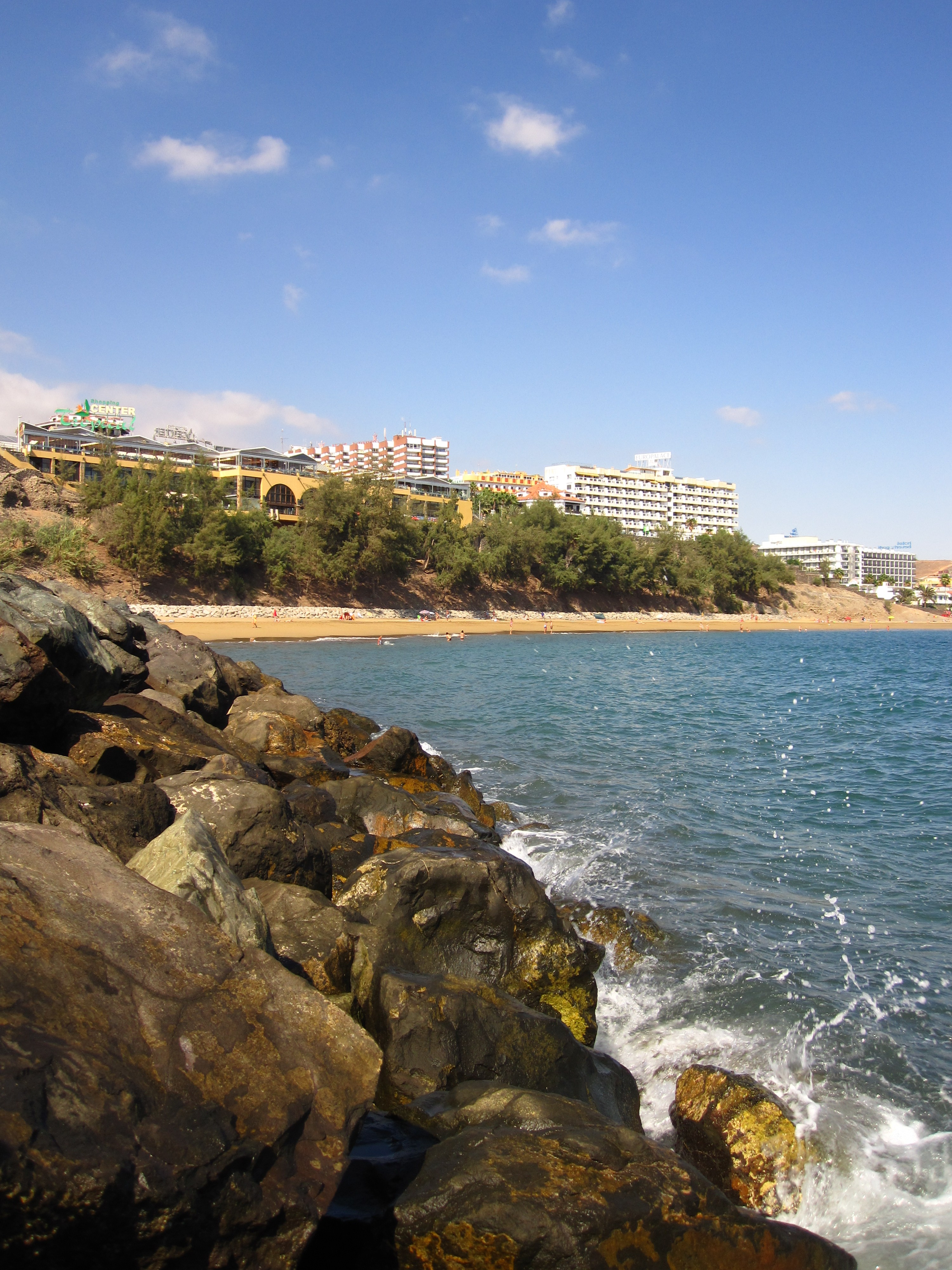 View of sandy beach in Playa del Ingles, Gran Canaria - Canary Islands